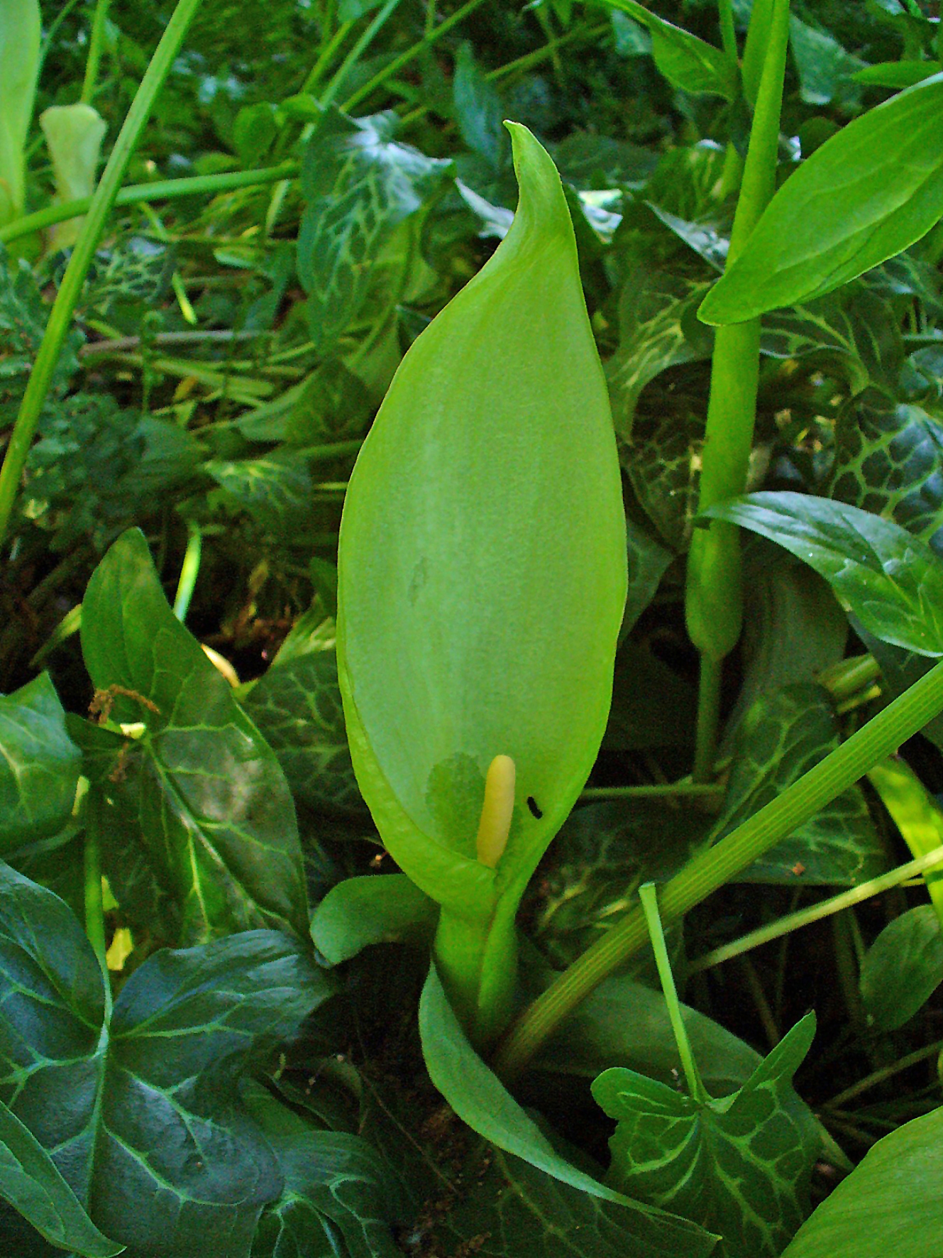 Arum italicum, Araceae, Cuckoo Pint, Italian Lords-and-Ladies, flower; Stadtgarten Karlsruhe, Germany. The fresh subterranean parts are used in homeopathy as remedy: Arum italicum (Arum-i.)